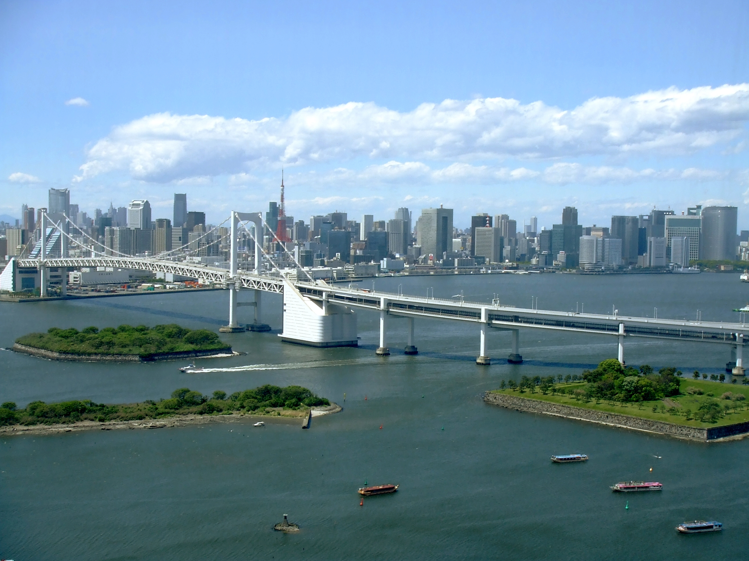 Tokyo view from Odaiba